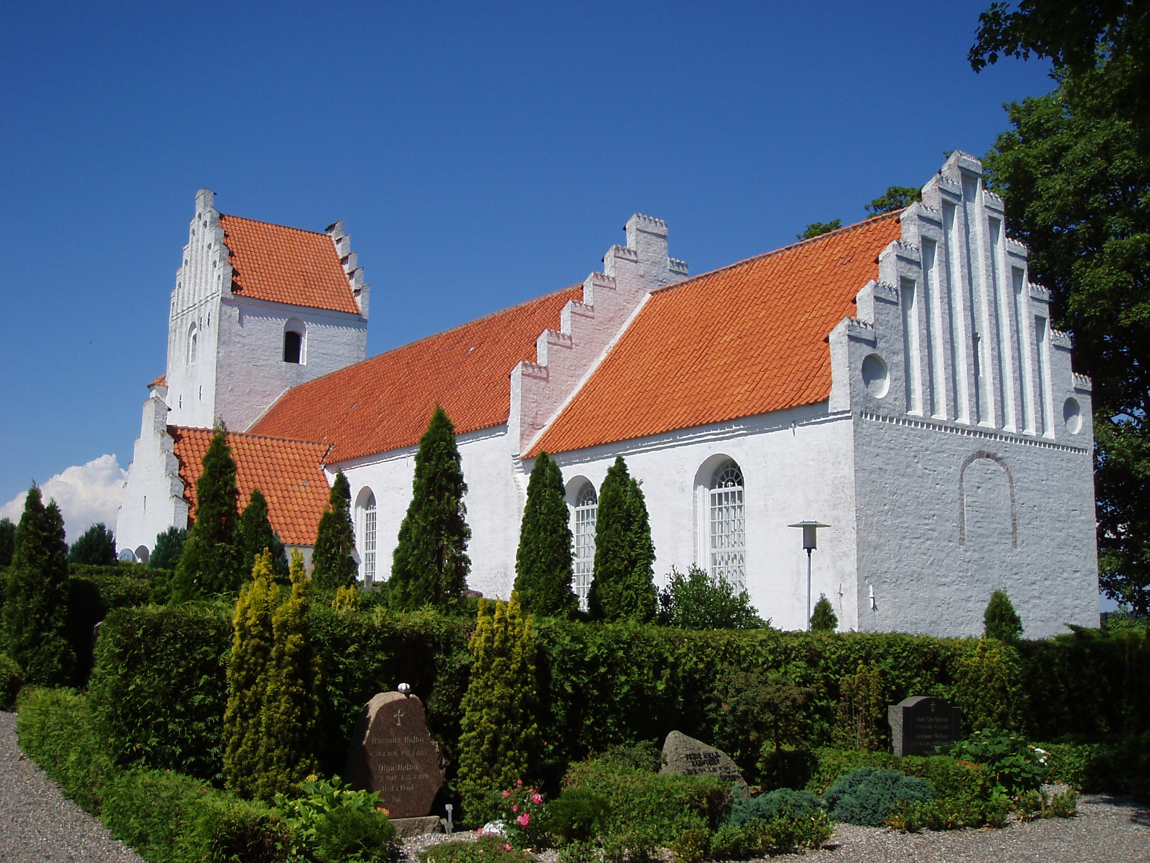 Besser Church on Samsø, Denmark.